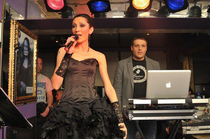 Wonder & Videlina at Planet Club de Luxe, Sofia, 2012